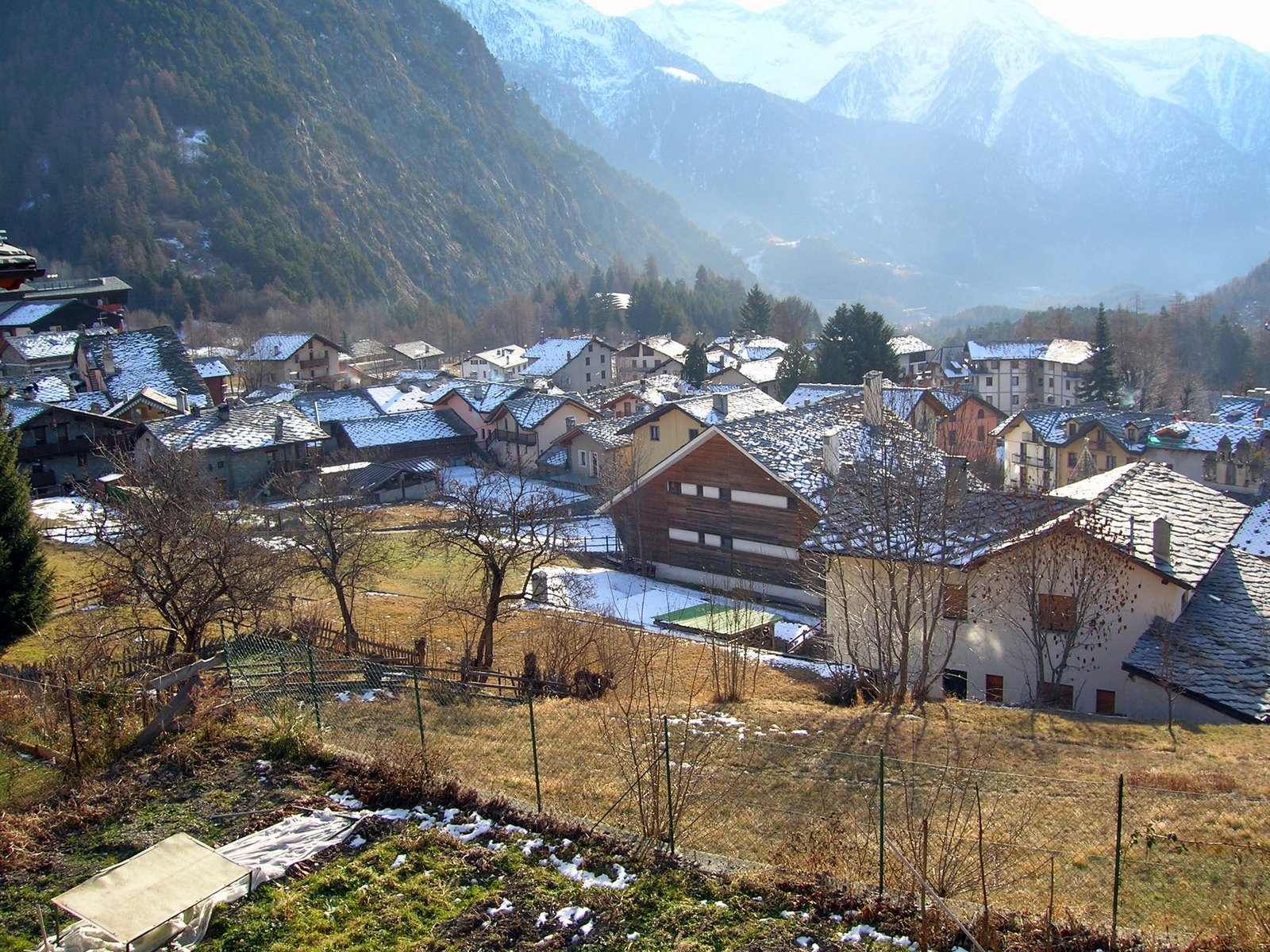 A view of the town of Brusson in the Aosta Valley of Italy.